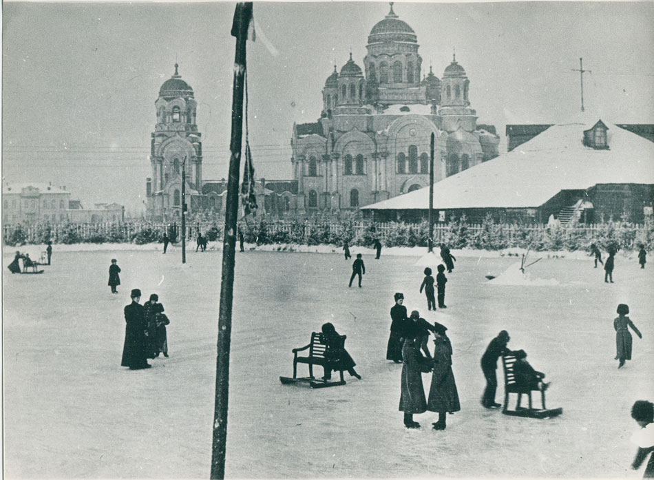 Kirov's Square in Irkutsk. XIX centure.